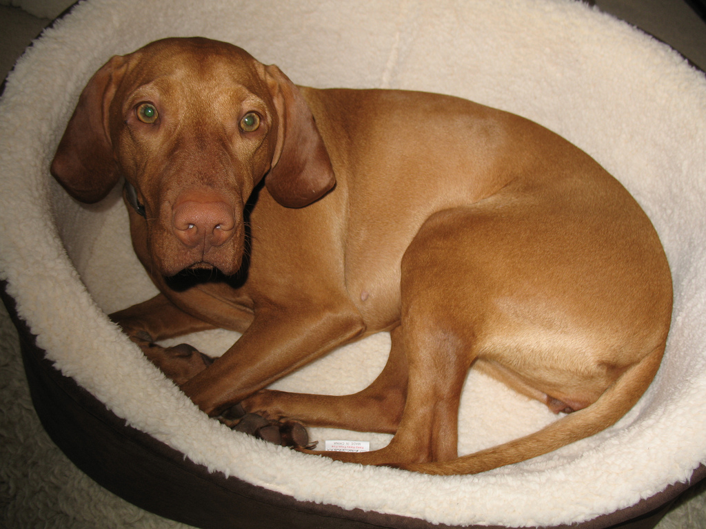 Amber - who's dad Yogi won "best in show " at Crufts last night.